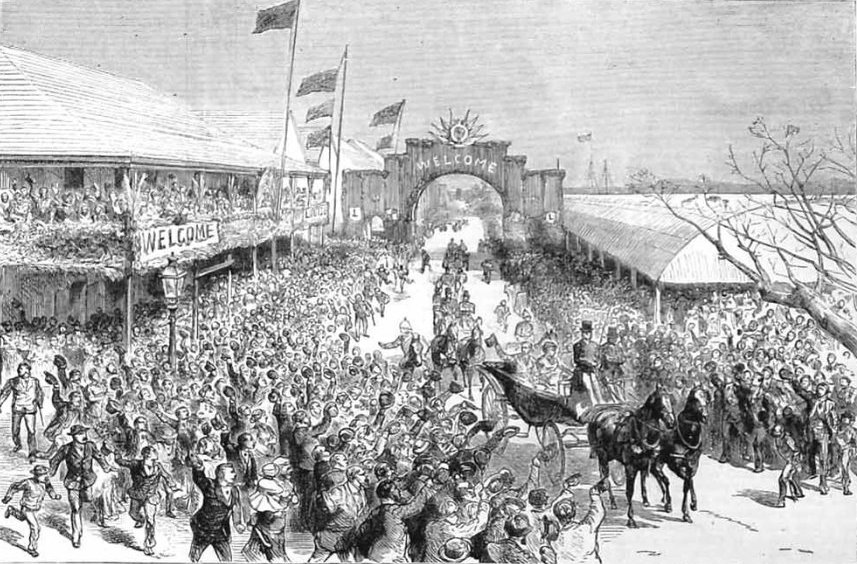 The arrival of Princess Louise, the fourth daughter of Queen Victoria, at the City of Hamilton, Bermuda, in 1883, when she visited the colony as a winter retreat and called it a place of eternal spring. At the time, she lived in Canada with her husband, the Duke of Argyll, who was Governor General there. Her visit was comemmorated in the naming of The Princess Hotel, which opened in 1885.